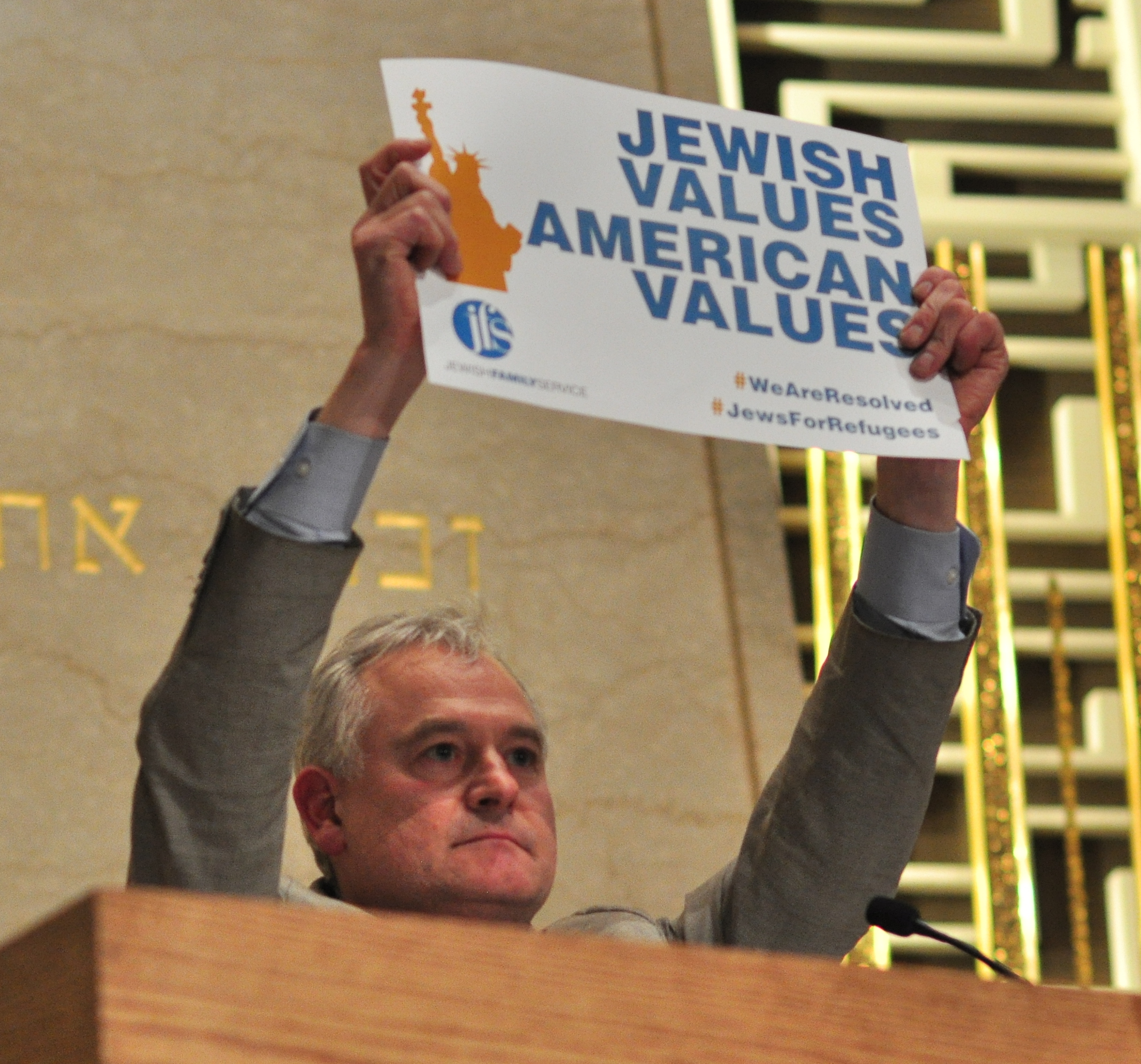 Washington State Senator Reuven Carlyle addressing a rally organized by Jewish Family Service of Seattle in response to Donald Trump's executive order limiting refugee programs and stopping immigration from seven predominantly Muslim countries. Temple De Hirsch Sinai, Seattle, Washington, U.S.